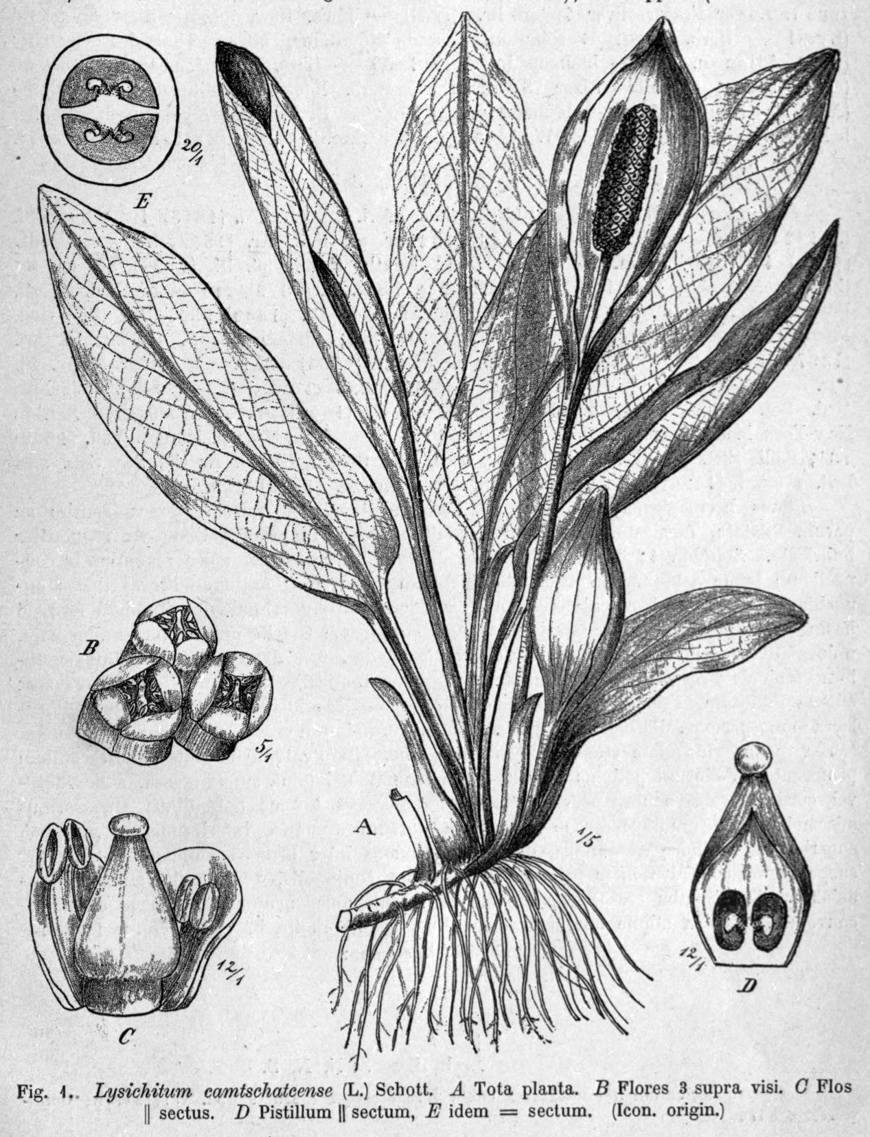 Lysichiton camtschatcensis